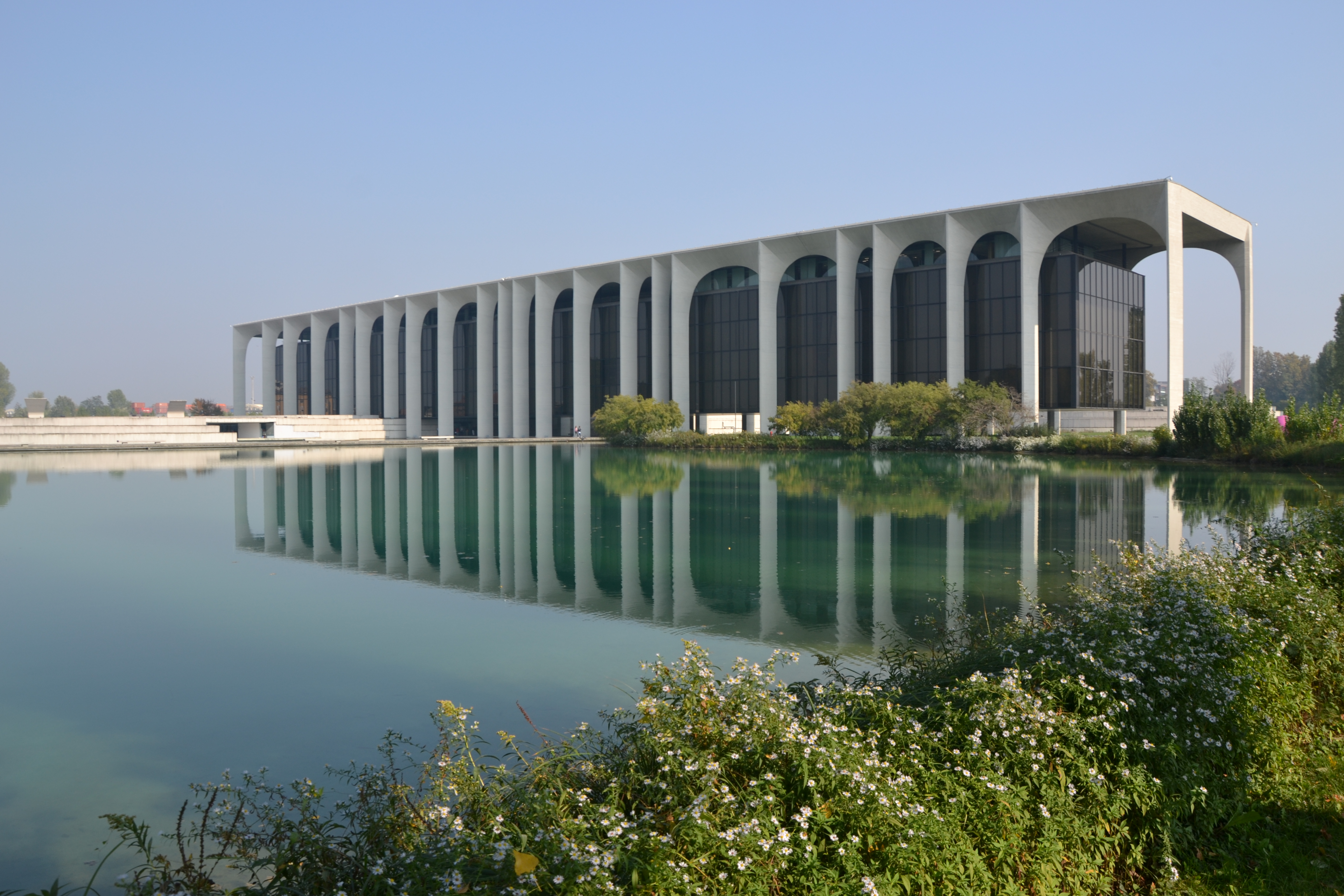 Mondadori headquarters by Oscar Niemeyer (1967 - 1970), Segrate (Milano).